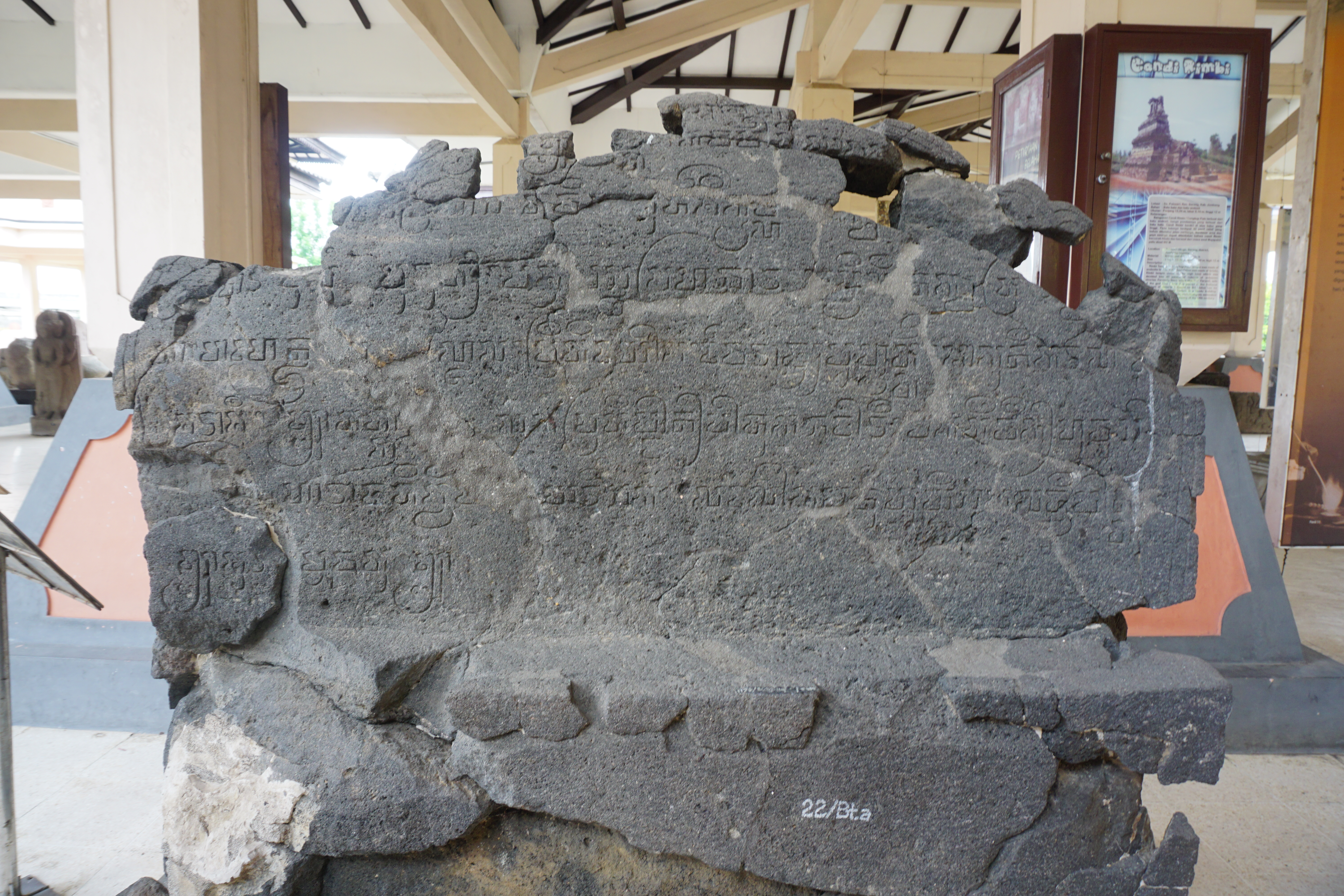 Trowulan, East Java